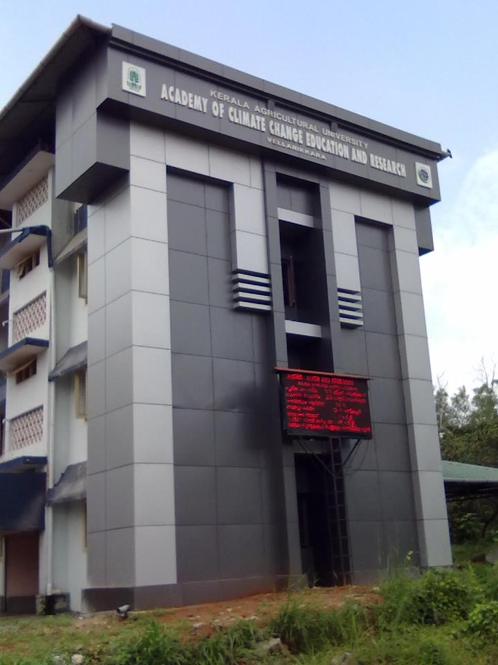 College Kerala University - Academy of Climate Change Education Research, Vellanikkara, Thrissur, Kerala 680656, India